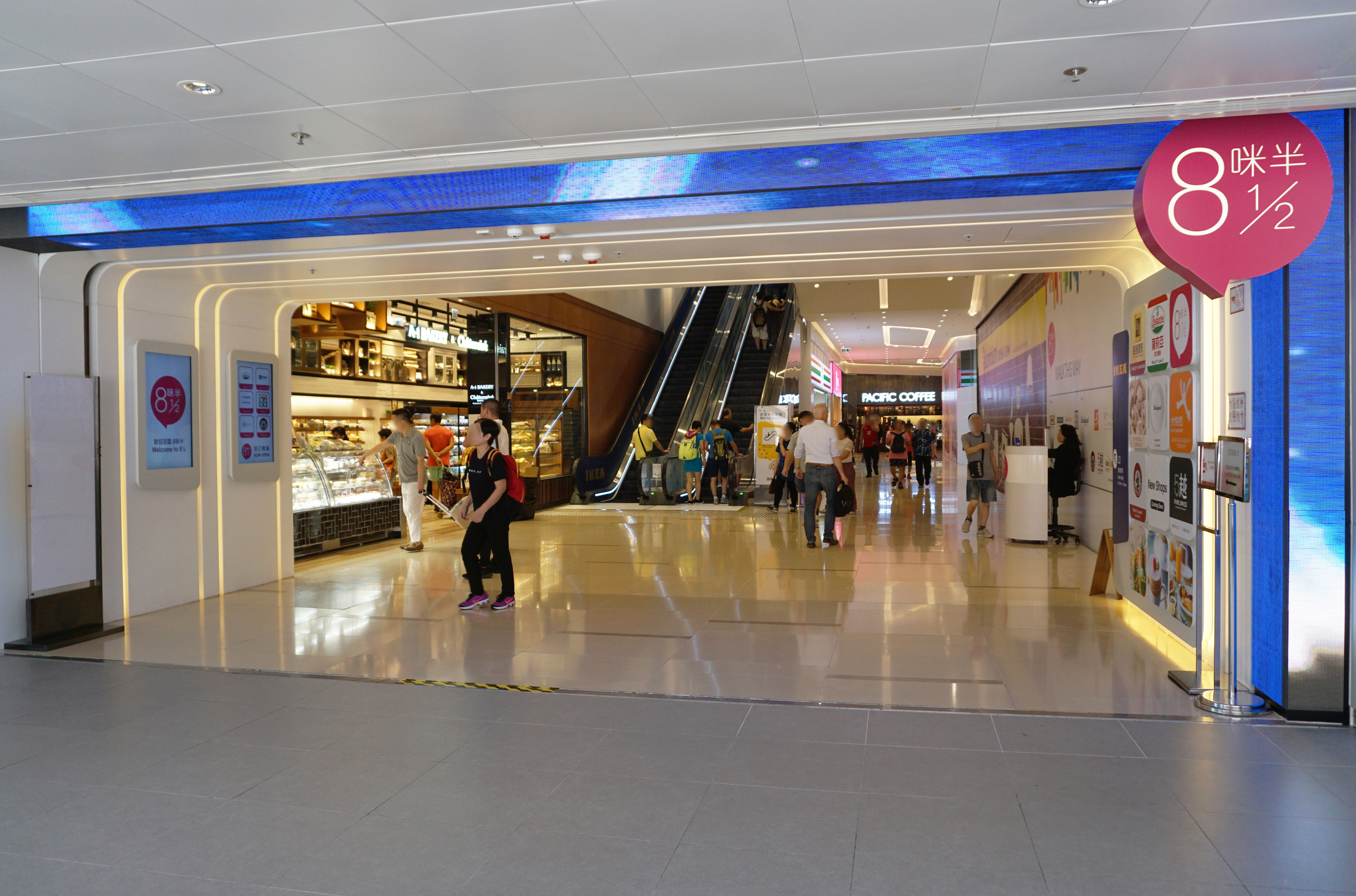 8 and one half in Tsuen Wan, Hong Kong.